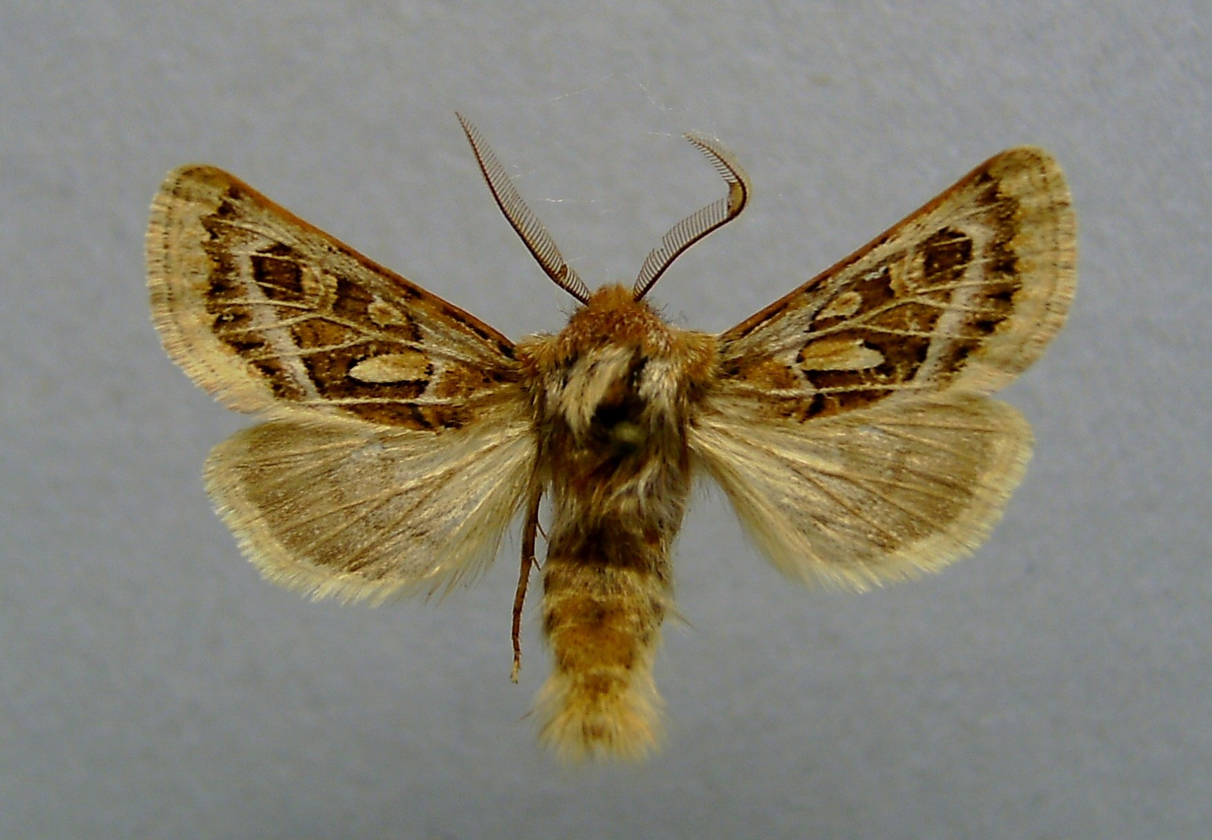 Ulochlaena hirta, male Gürün Turkey